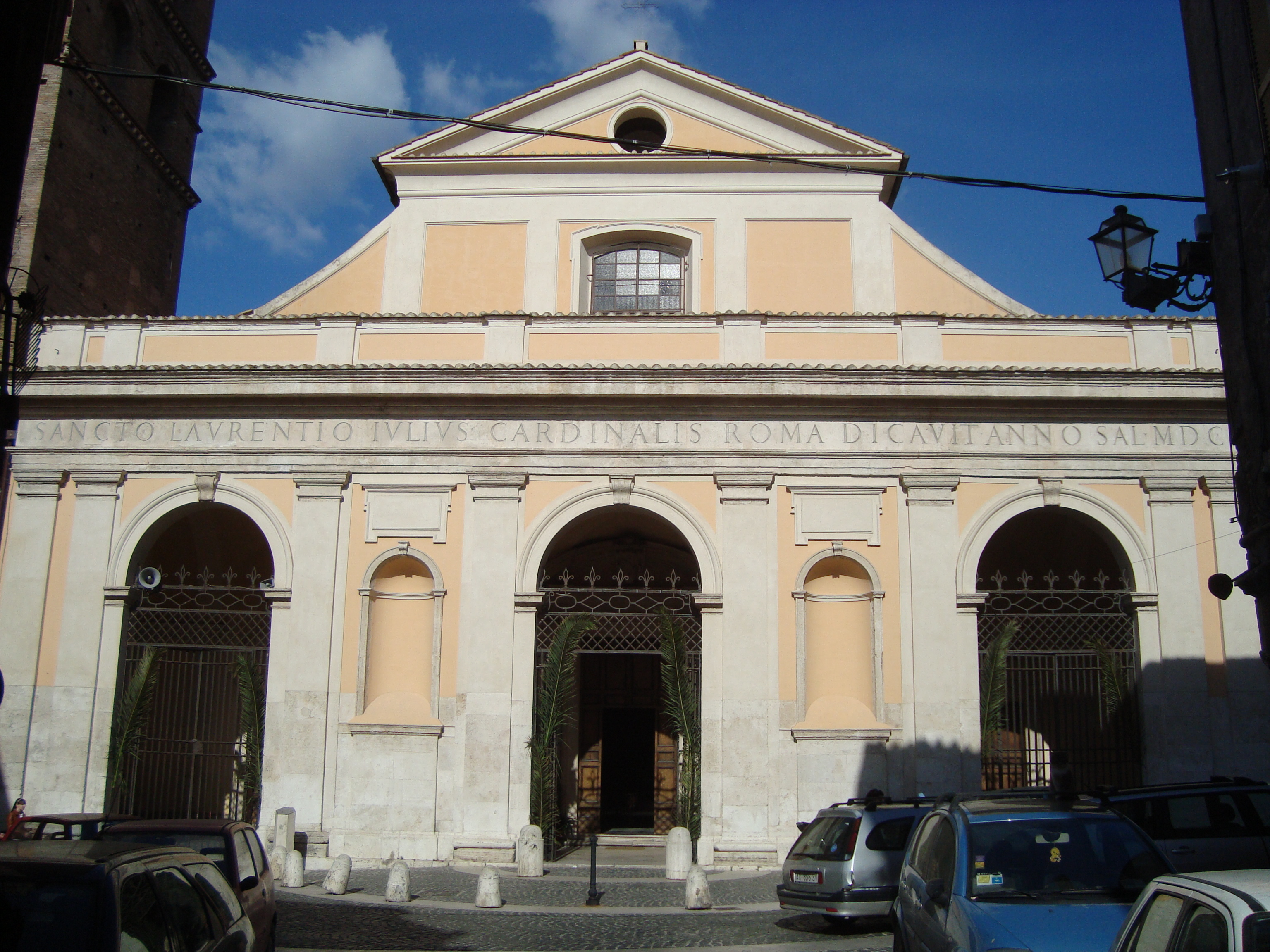 The facade of San Lorenzo's Cathedral in Tivoli